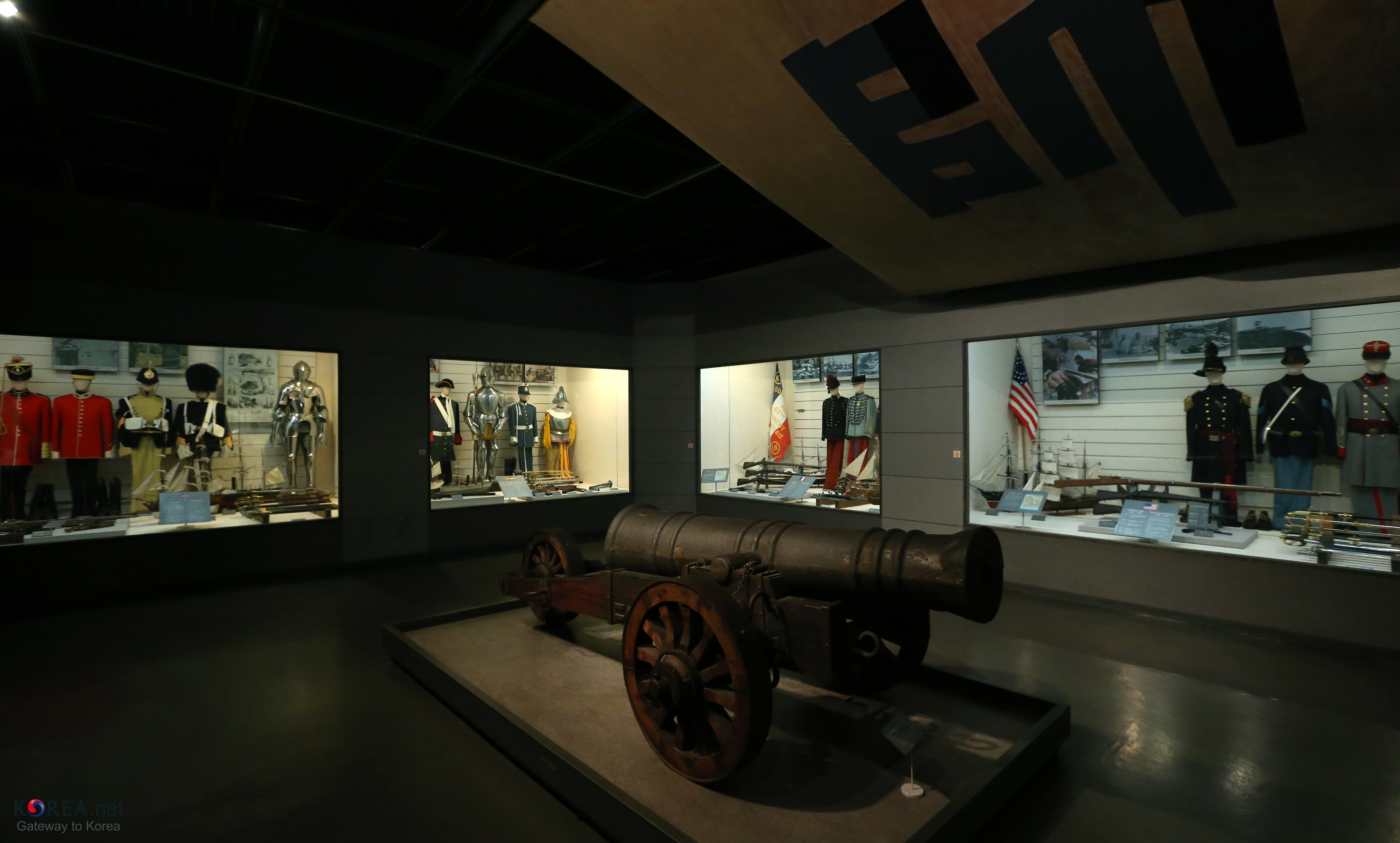 War Memorial of Korea January 7, 2014. War Momorial of Korea, Youngsan-gu, Seoul Related Article War Memorial teaches history, offers winter fun Ministry of Culture, Sports and Tourism Korean Culture and Information Service ( JEON HAN 전쟁기념관 2014-01-07 용산구, 서울 문화체육관광부 해외문화홍보원 코리아넷 전한